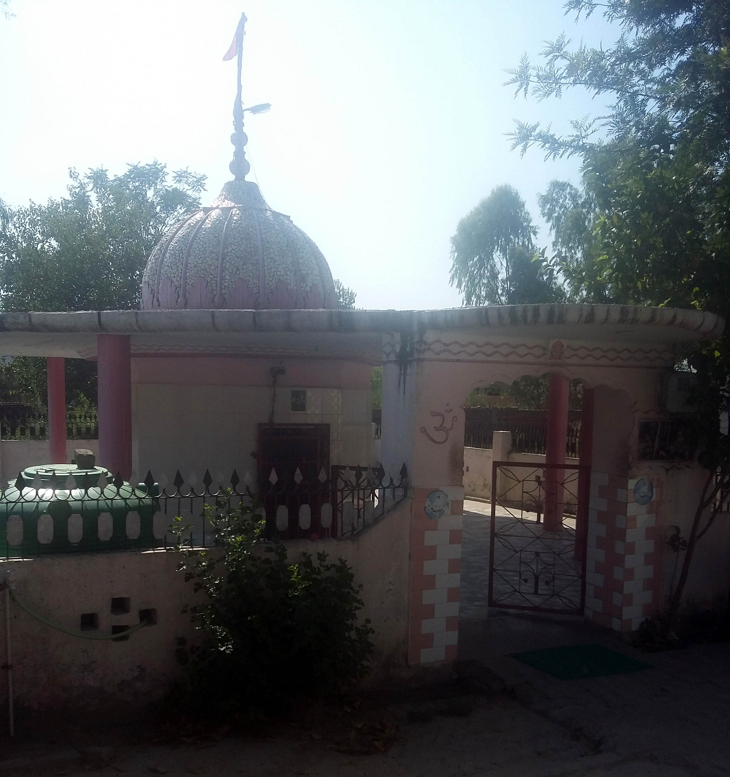 religious place in village Sajjan